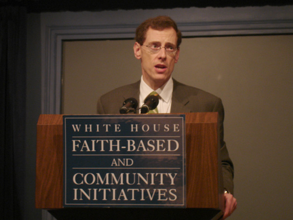 Mark P. Lagon, Director, Office to Monitor and Combat Trafficking in Persons, delivers remarks at Compassion in Action Roundtable on Human Trafficking at the White House. (State Department photo)